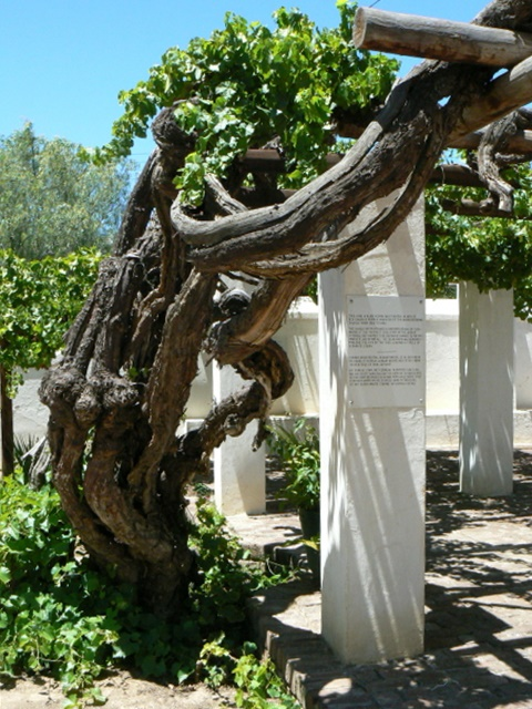 Reinet House, Murray Street, Graaff-Reinet, now a museum complex housing artifacts depicting life in the early years of Graaff-Reinet, this used to be the grape vine with the thickest stem in the world, until attacked by mildew that required much wood to be removed in order to save the plant. This media shows a South African Protected Site with SAHRA file reference 9/2/033/0002-575.